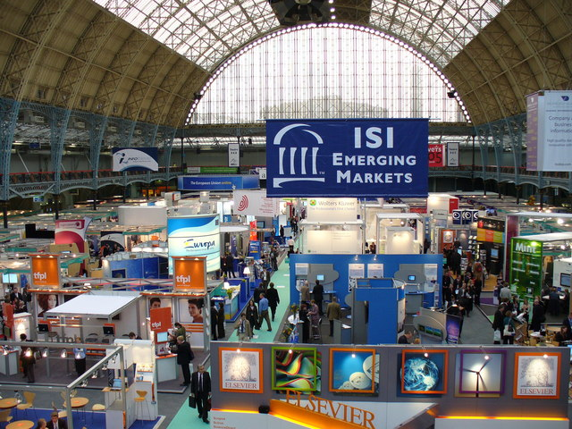 Olympia Exhibition Hall This huge Victorian hall was opened in 1886 and has housed a variety of events - circuses, Motor Shows and Ideal Home Exhibitions. This is the westerly of the three halls (Empire, Grand and National Halls)and taking place is the "Online Information 2006" exhibition. Note the enormous arched glass gable and roof.